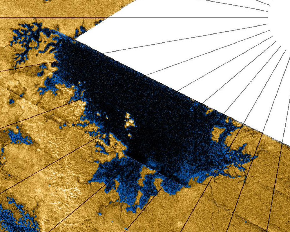 This Cassini false-color mosaic shows synthetic-aperture radar imagery of Titan's north polar region. Approximately 60 percent of Titan's north polar region, above 60 degrees north latitude, is now mapped with radar. About 14 percent of the mapped region is covered by what is interpreted as liquid hydrocarbon lakes. Features thought to be liquid are shown in blue and black, and the areas likely to be solid surface are tinted brown. These seas are most likely filled with liquid ethane, methane and dissolved nitrogen. Many bays, islands and presumed tributary networks are associated with the seas. Of the 400 observed lakes and seas, 70 percent of their area is taken up by large "seas" greater than 26,000 square kilometers (10,000 square miles). The Cassini-Huygens mission is a cooperative project of NASA, the European Space Agency and the Italian Space Agency. The Jet Propulsion Laboratory, a division of the California Institute of Technology in Pasadena, manages the mission for NASA's Science Mission Directorate, Washington, D.C. The Cassini orbiter was designed, developed and assembled at JPL. The radar instrument was built by JPL and the Italian Space Agency, working with team members from the United States and several European countries. For more information about the Cassini-Huygens mission, visit The original NASA image has been modified by cropping, to show primarily Punga Mare, and rotating 90 deg., to put north at upper right.